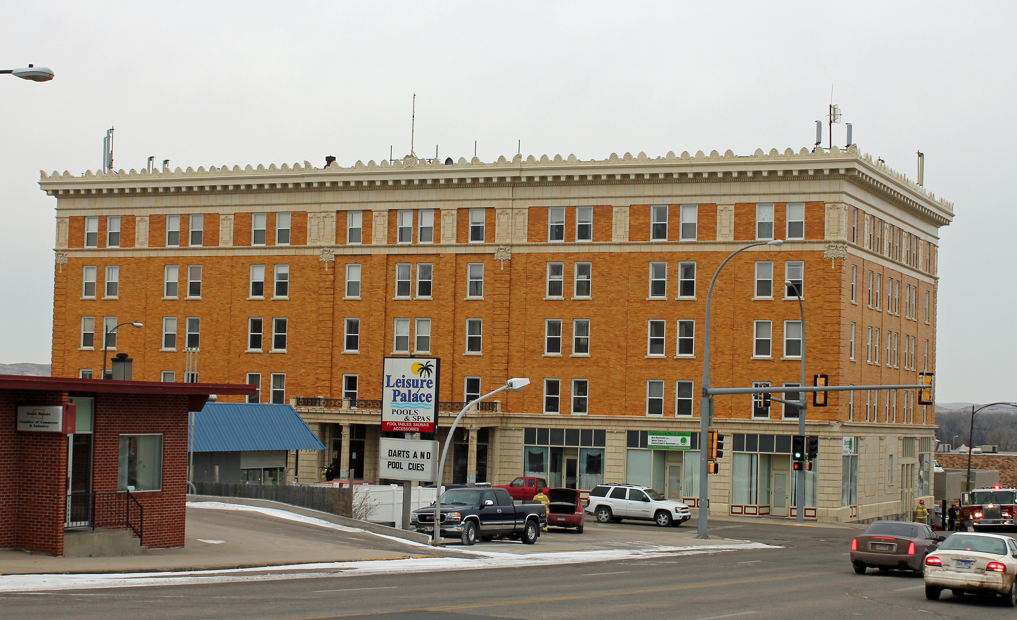 The St. Charles Hotel, located at 207 East Capitol Avenue in Pierre, South Dakota. The hotel is listed on the United States National Register of Historic Places.